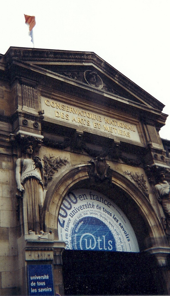 Conservatoire National des Arts et Métiers, Paris, 2000.